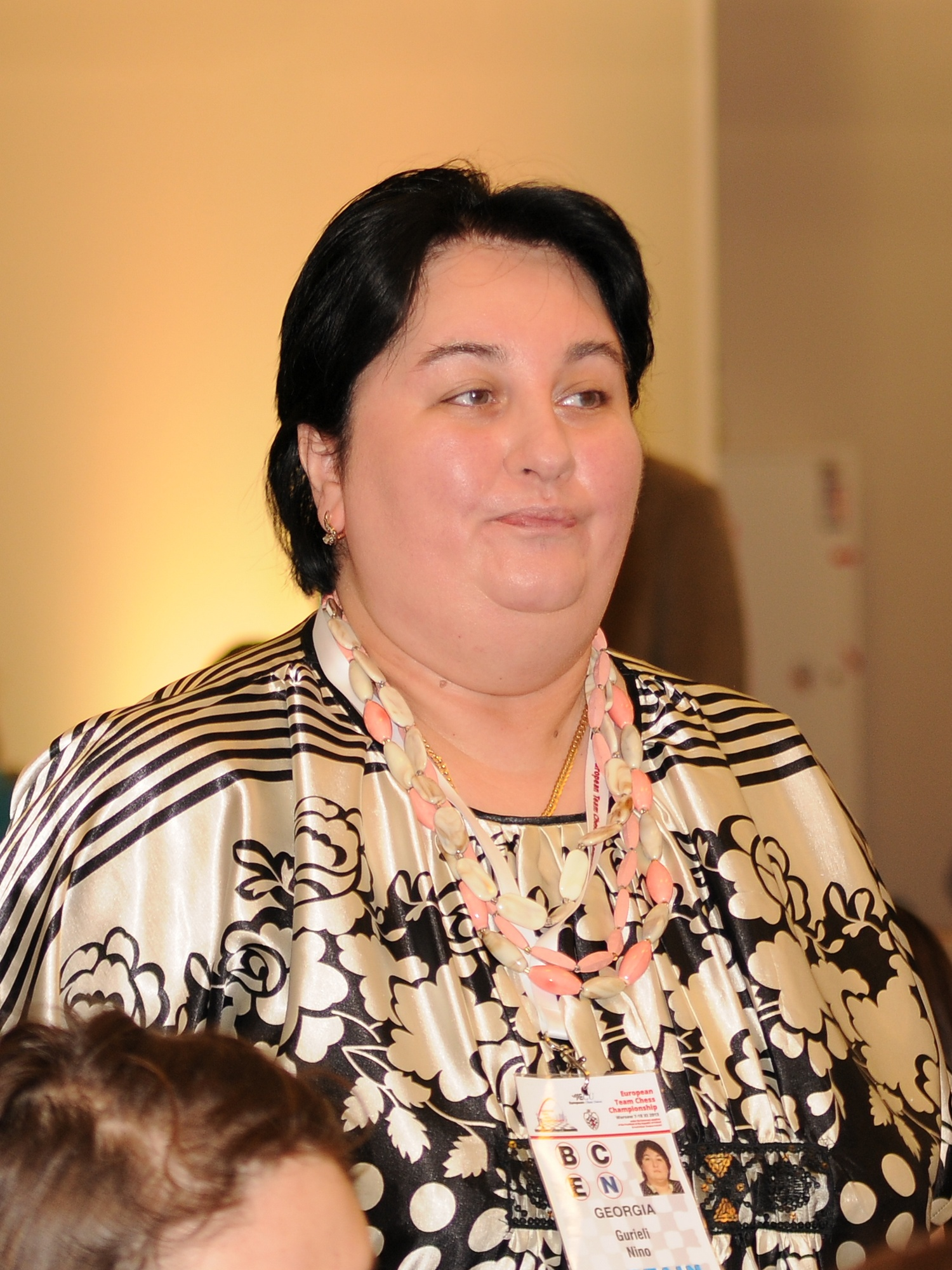 IM Nino Gurieli, European Chess Team Championship Warsaw 2013